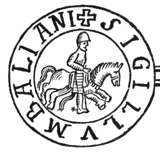 Balian of Ibelin